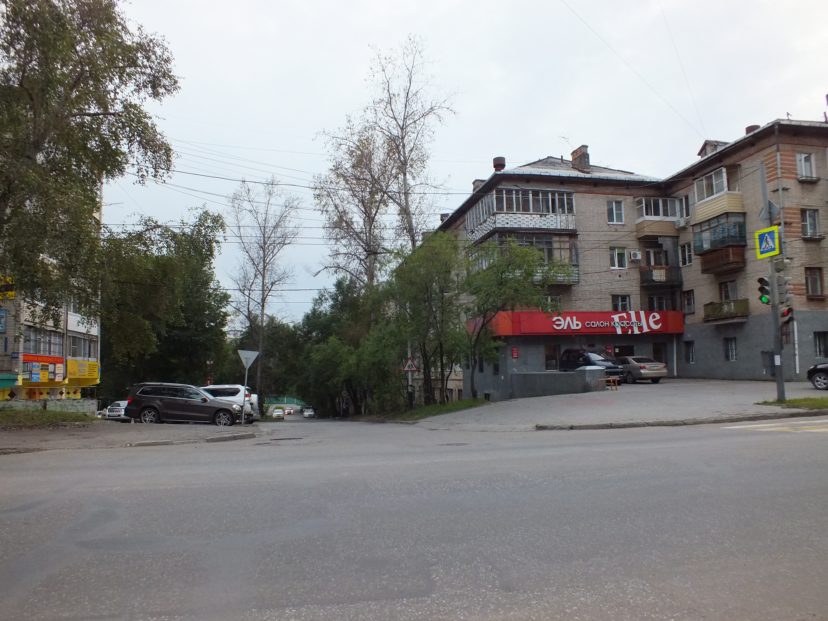 Streets in Khabarovsk